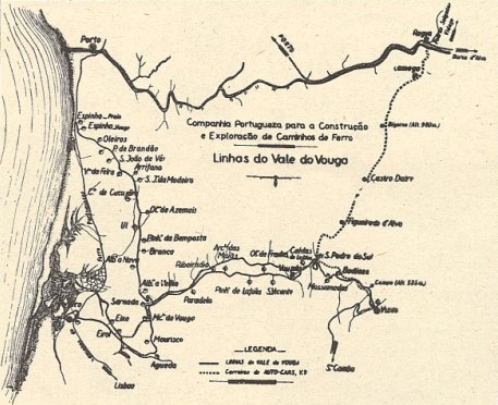 Map of the Vouga railway network, in Portugal, in 1944. In the map are also drawn the Dão Line and parts of the Norte, Douro, Corgo and Beira Alta railways, and the bus lines of the Vouga railway company (Companhia Portuguesa para a Construção e Exploração de Caminhos de Ferro - Portuguese Company for the construction and management of Railways). This image was published on the Gazeta dos Caminhos de Ferro magazine no. 1363, of the 1st October 1944, and scanned by the Hemeroteca Municipal de Lisboa.